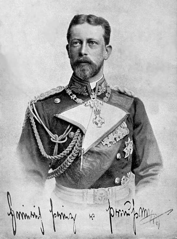 Prince Henry of Prussia (1862–1929), Grand Admiral of the Imperial German Navy during the World War I.